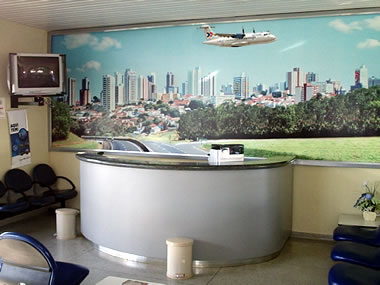 P8